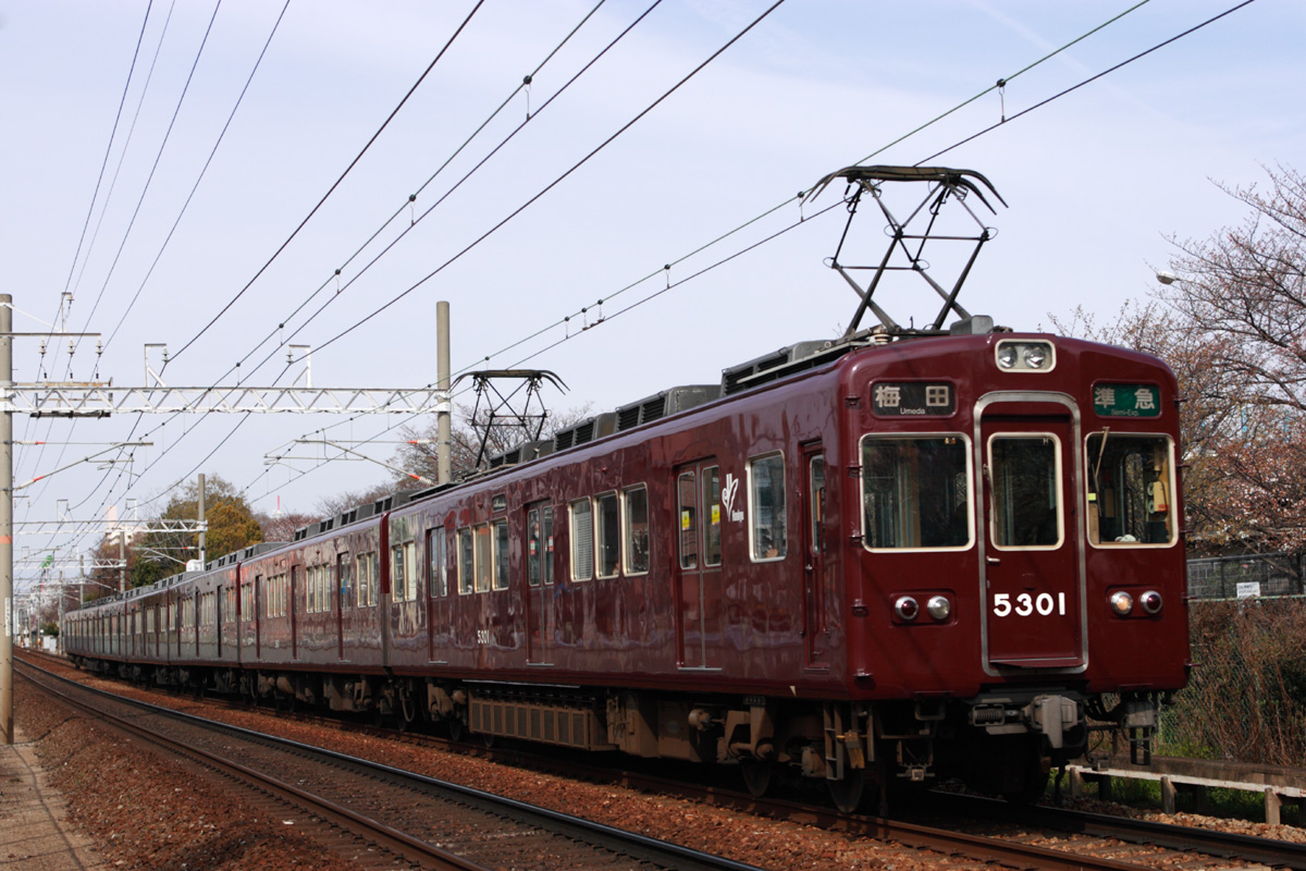 Hankyu Railway 5300 Series